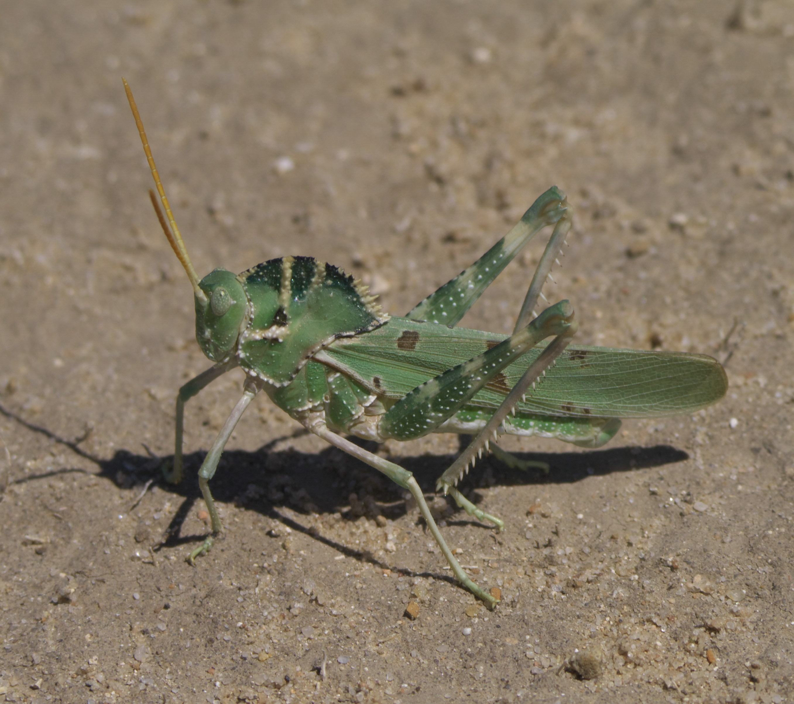 Tropidolophus formosus, Great Crested Grasshopper, ID Confidence: 93